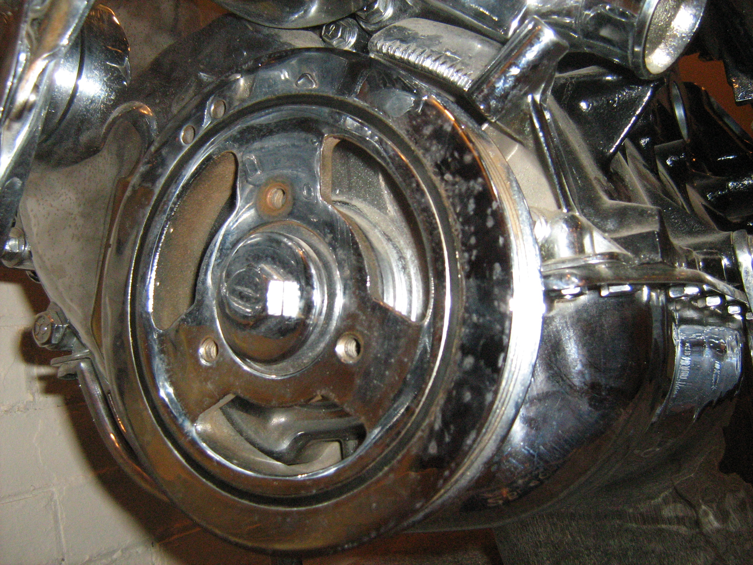 Jeep 2.5 liter 4-cylinder engine, chromed - close up of the lower main pulley and harmonic balancer. This engine was developed by American Motors Corporation (AMC) and continued to be manufactured by Chrysler. All were built in Kenosha, Wisconsin.